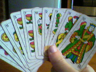 A player of Tute holding the ten cards of the play in the traditional way of abanico.